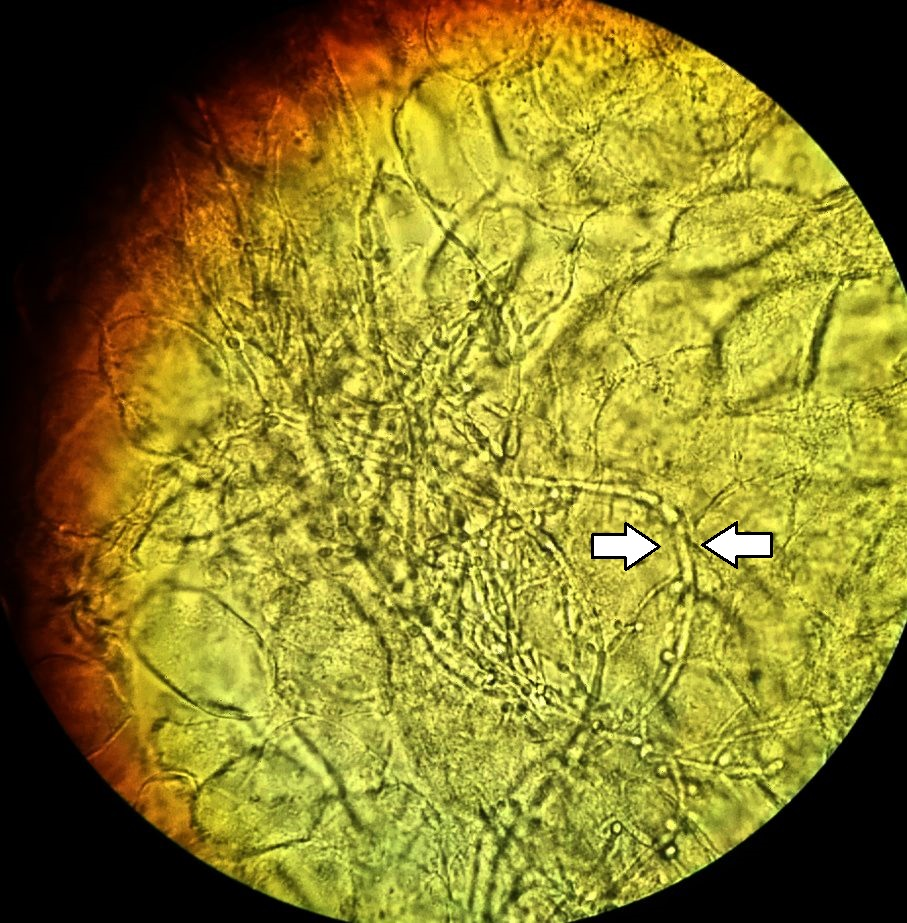 Vaginal wet mount (using a potassium hydroxide preparation and light microscopy at 40x magnification) showing slings of pseudohyphae of Candida albicans surrounded by round vaginal epithelial cells, conferring a diagnosis of candidal vulvovaginitis.